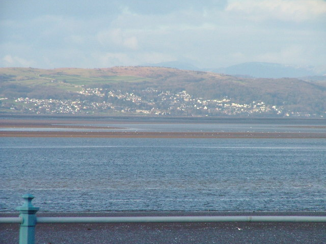 Kents Bank, Cumbria. Kents Bank and Hampsfield Fell across Morecambe Bay